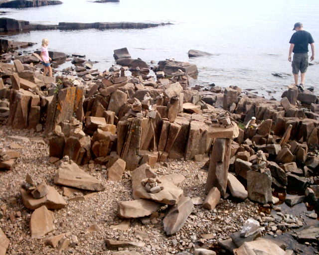 Rocks at the harbor of Grand Marais, Minnesota